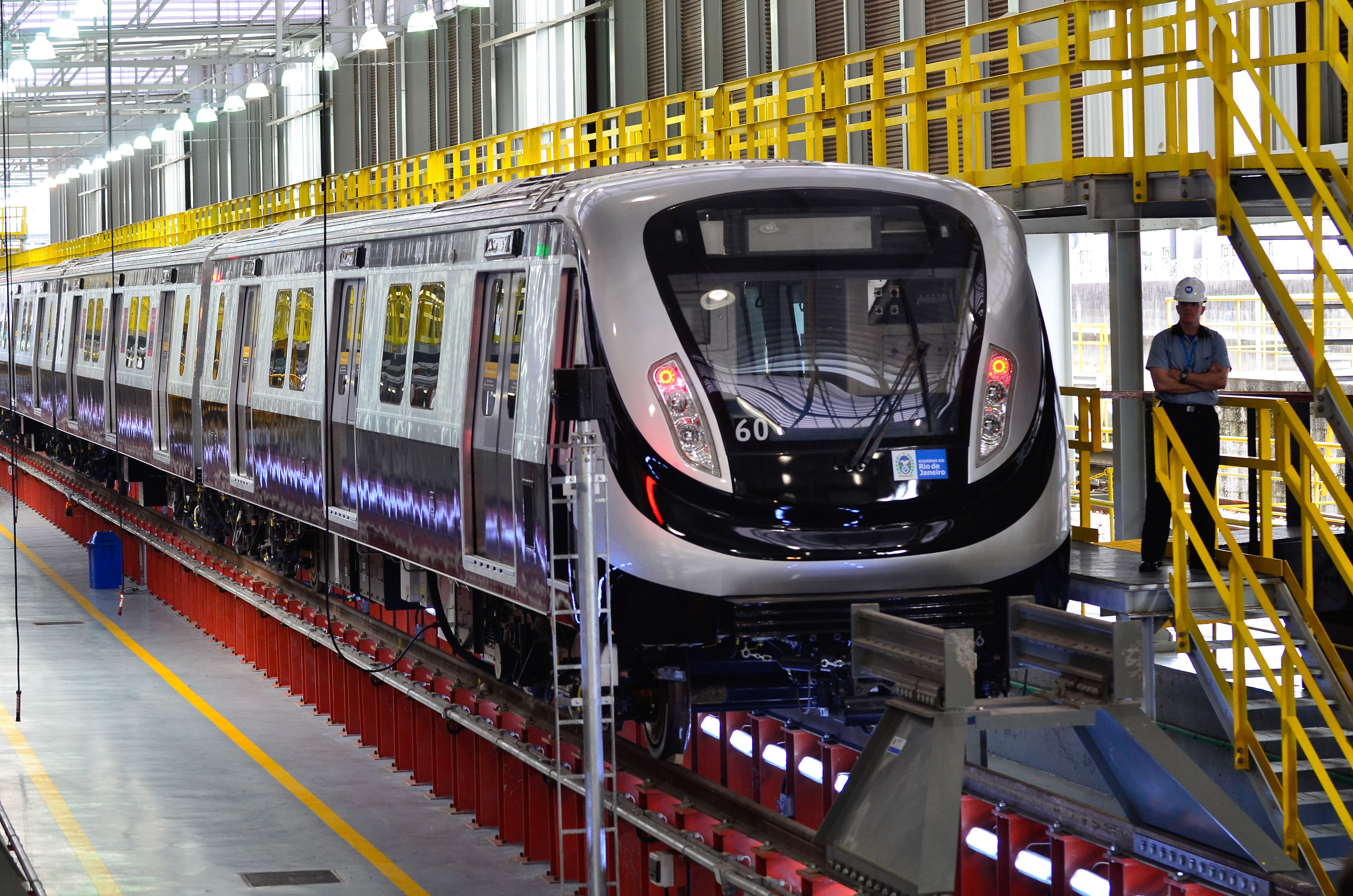 Photo: Tânia Rego/Agência Brasil CCBY3.0